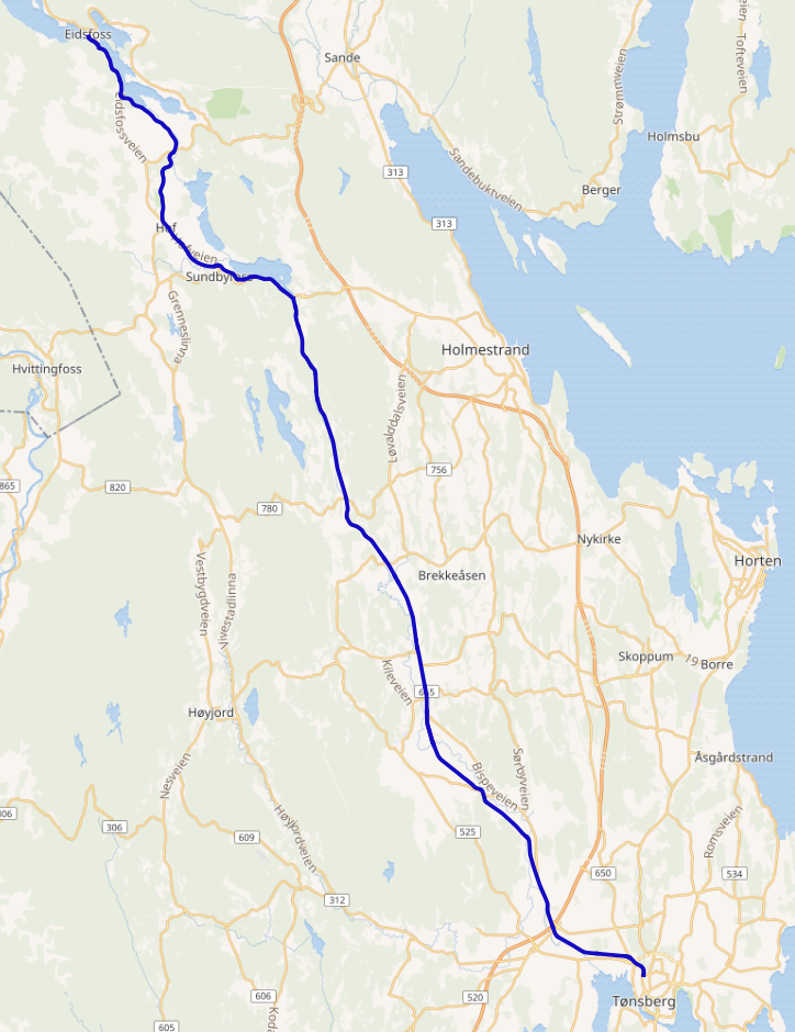 Route of the Tønsberg-Eidsfoss line, based on old orthophotos.